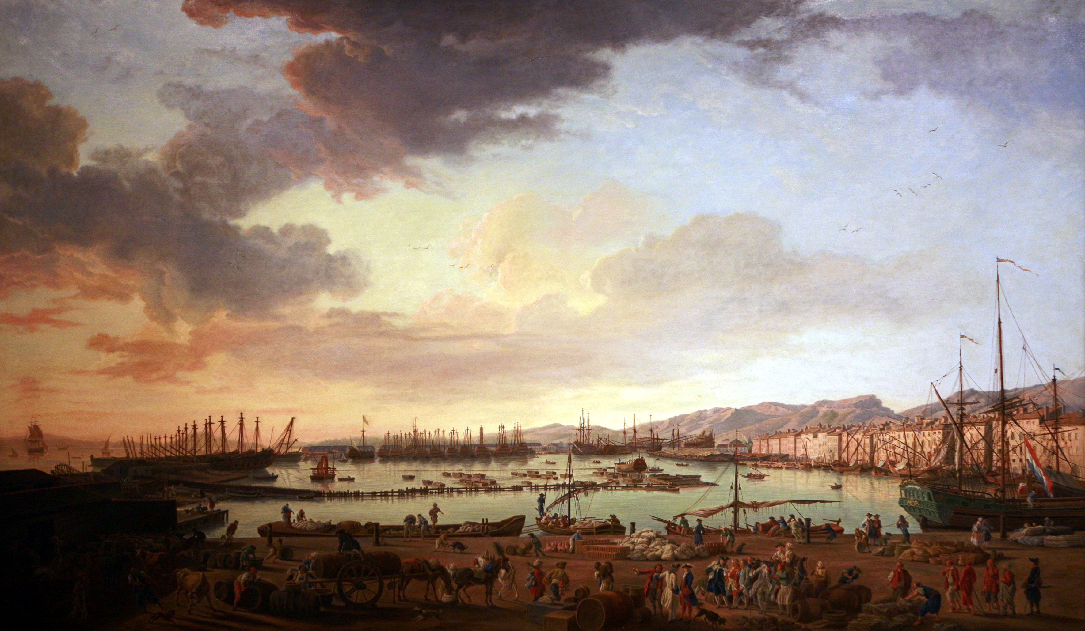 Series of paintings of the harbours of France : Toulon